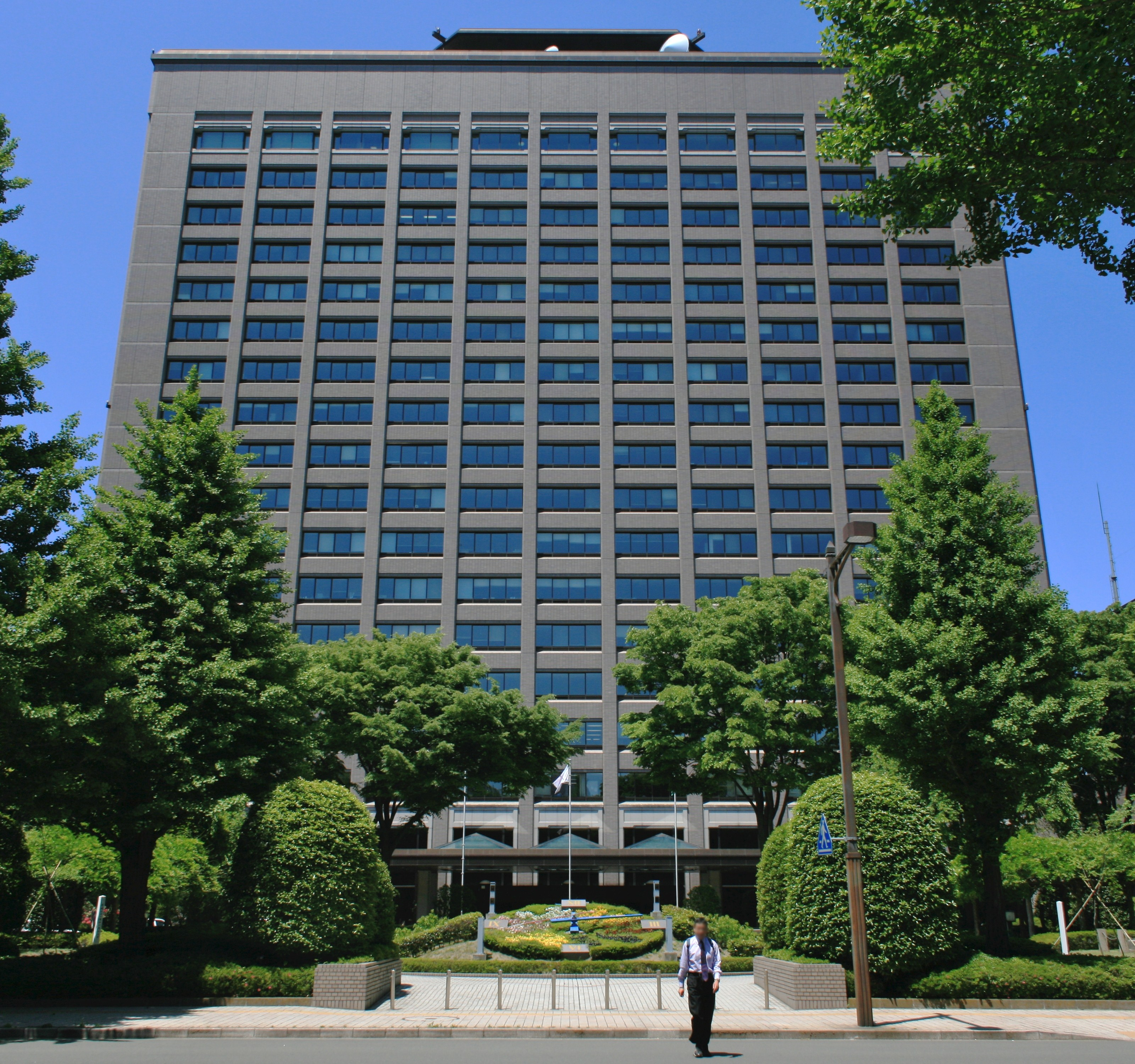 Miyagi Prefectural Office (Miyagi-ken chōsha) viewed from south-southeast. It is in Honcho (Honchō), Aoba Ward (Aoba-ku), Miyagi Prefecture (Miyagi-ken), Japan. Stitched 2 photographs together by Hugin, and retouched by GIMP2.